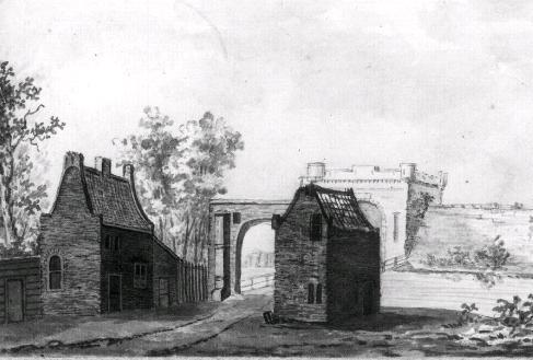 De_Catharijnepoort_te_Utrecht_uit_het_westen Anonieme tekening uit de tweede helft (?) van de 18de eeuw naar een onbekend voorbeeld uit ca. 1550.De voorstelling is sterk gefantaseerd.